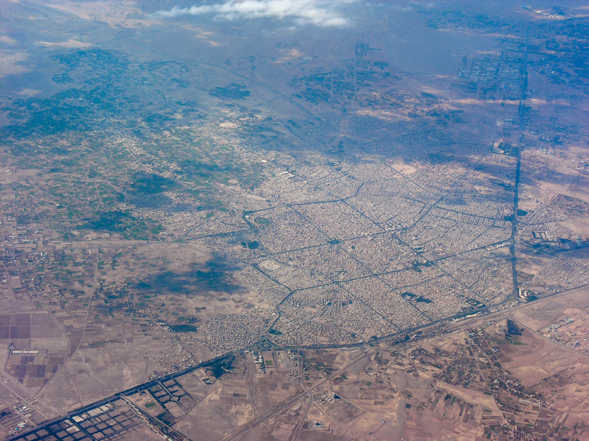 Iran, aerial views of Kashan on a flight from Tehran to Dubai